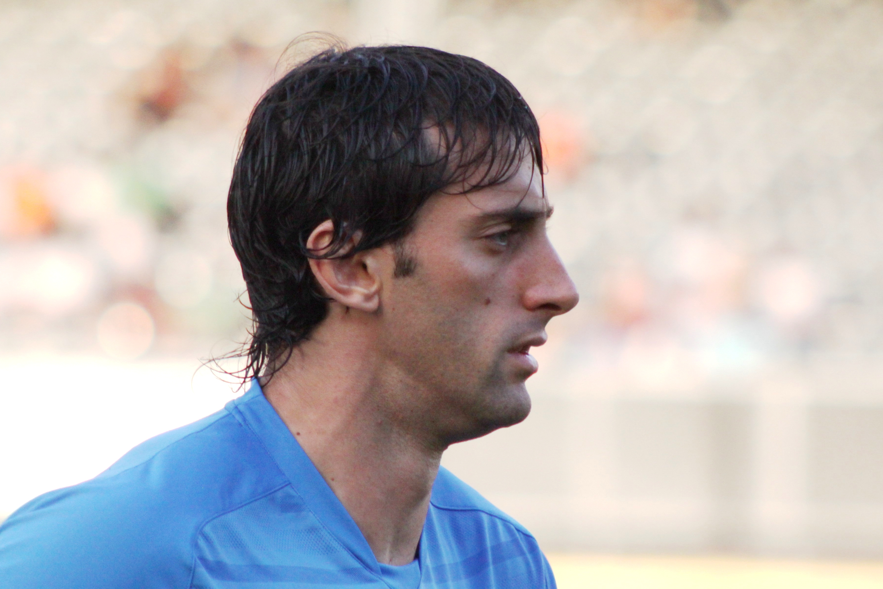 Diego Milito - F.C. Internazionale Milano.